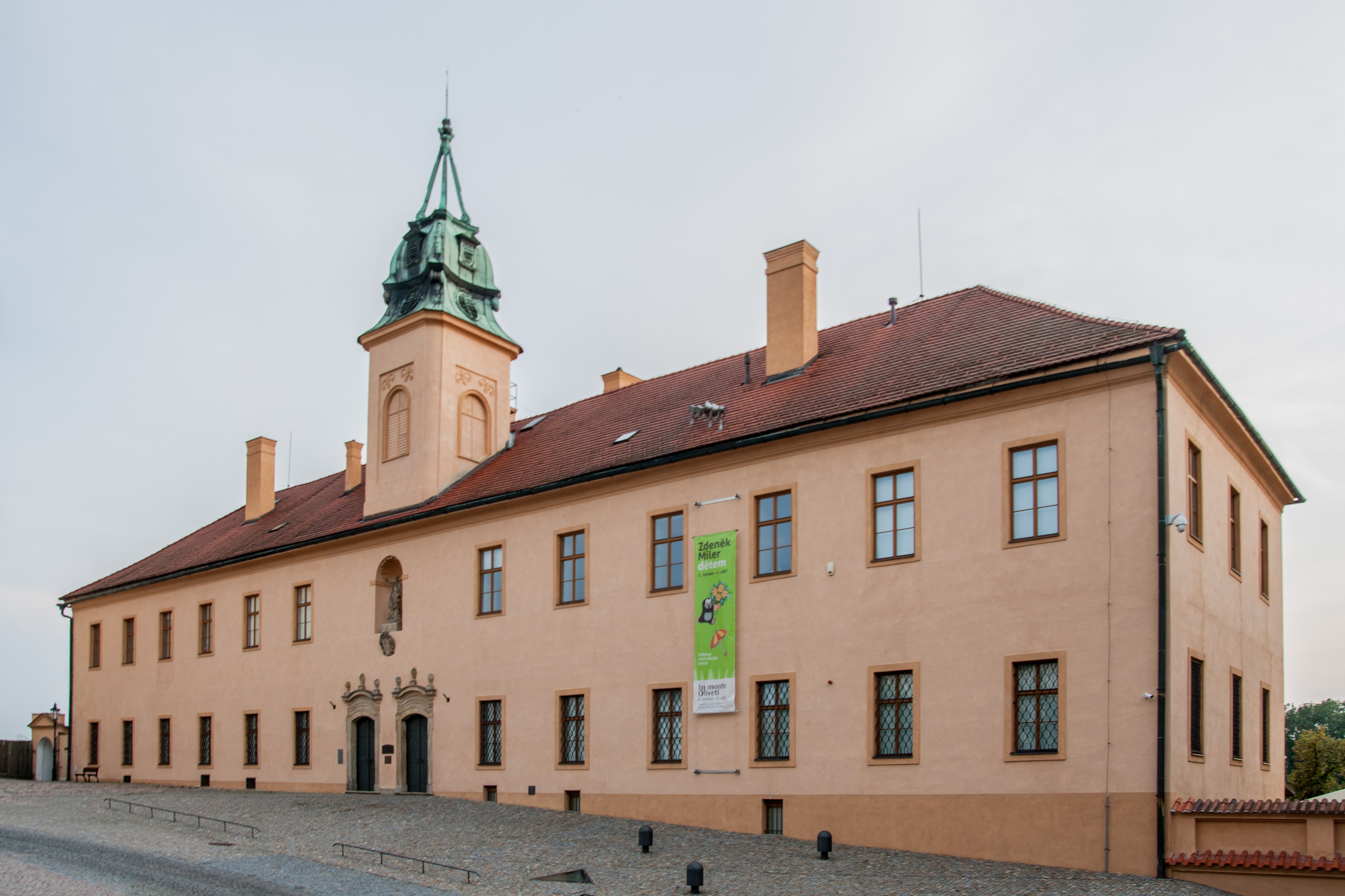 Former Piarists' gymnasium, now regional museum in Litomyšl, Svitavy District, Pardubice Region, Czechia This image was acquired during the event Wikiměsto Litomyšl.